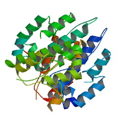 Crystal Structure of Timeless_PAB Domain Native Form